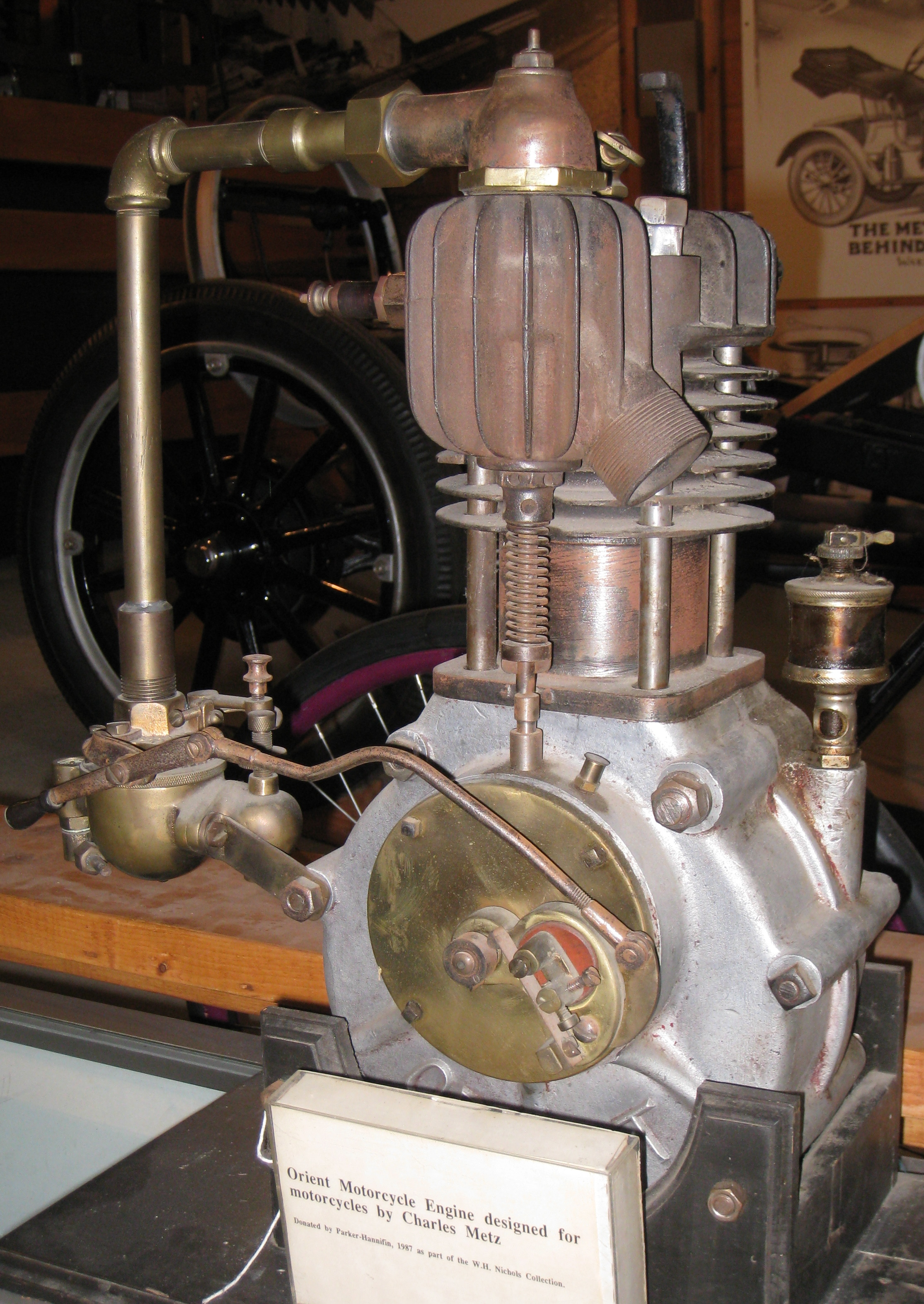 Orient Motorcycle Engine designed by Charles Metz.